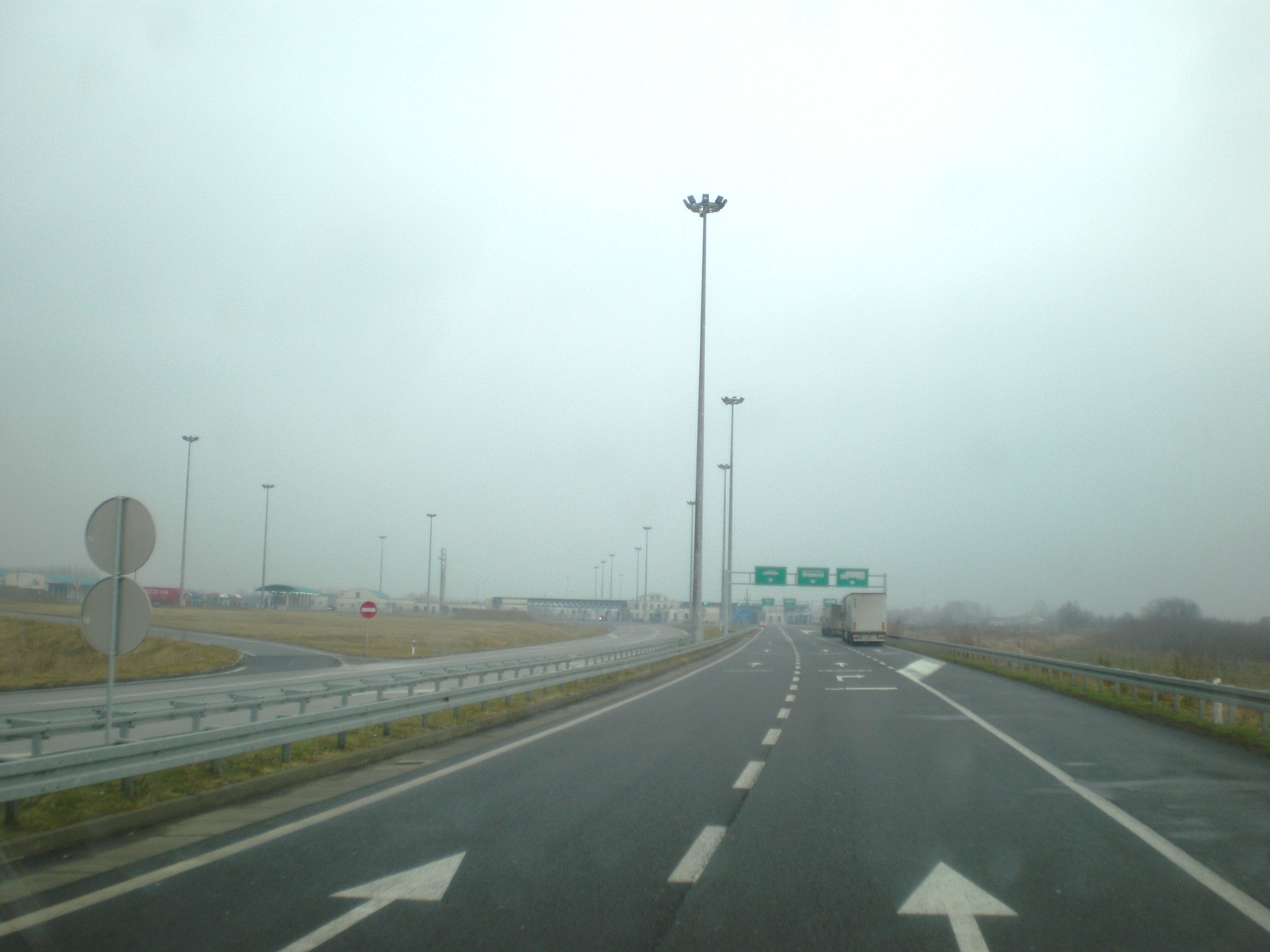 Horgos - Roszke road border crossing